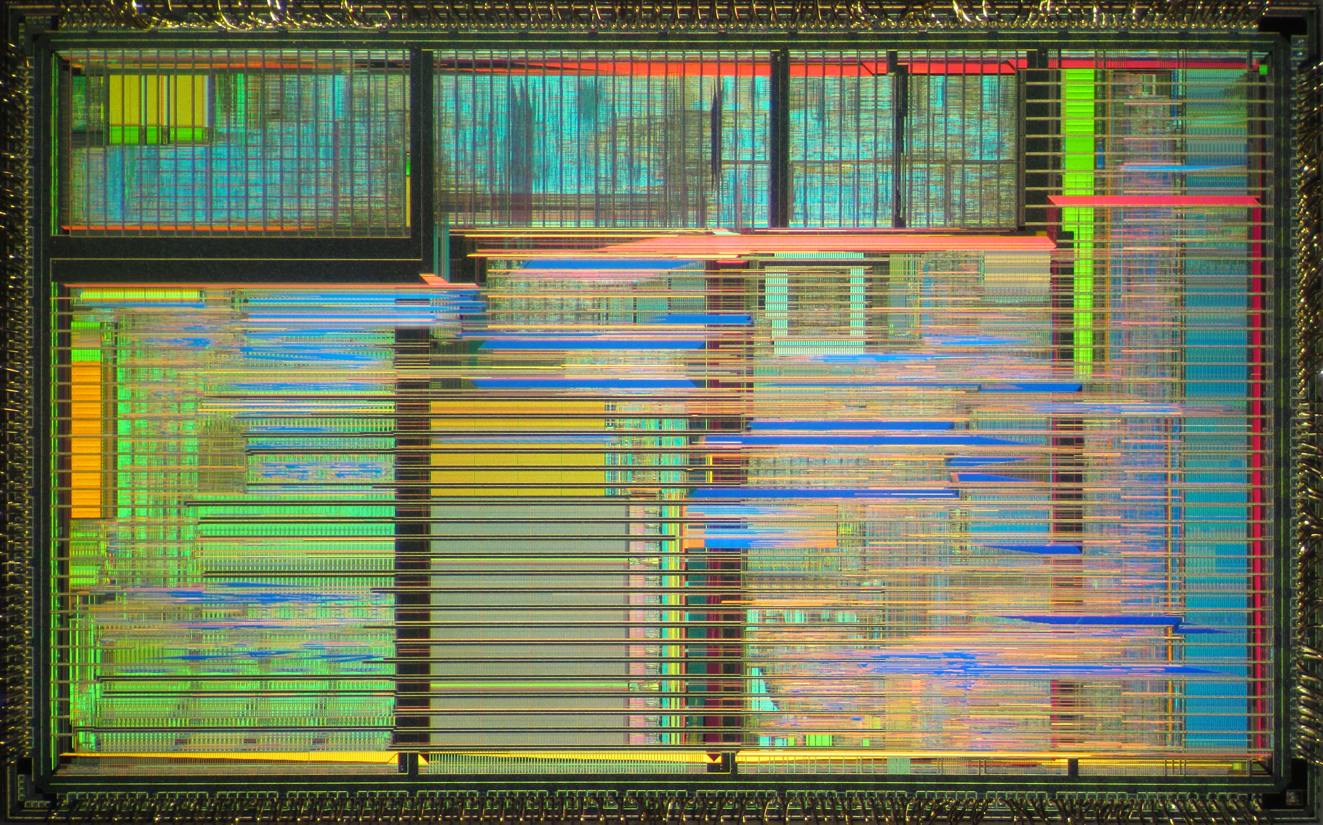 Die shot of Cyrix MediaGXm microprocessor (GXm-266GP).